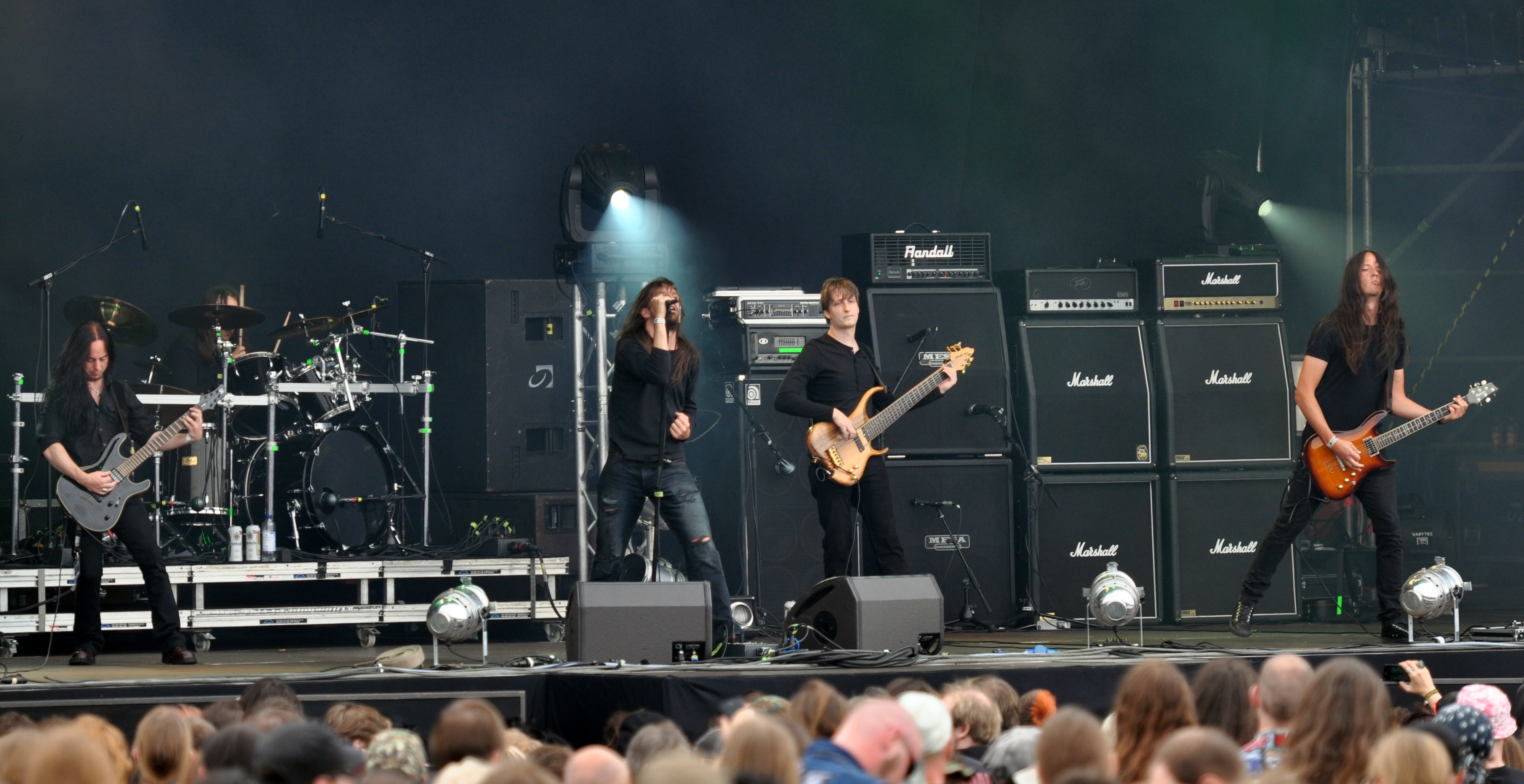 Farsot at Party.San Metal Open Air 2013